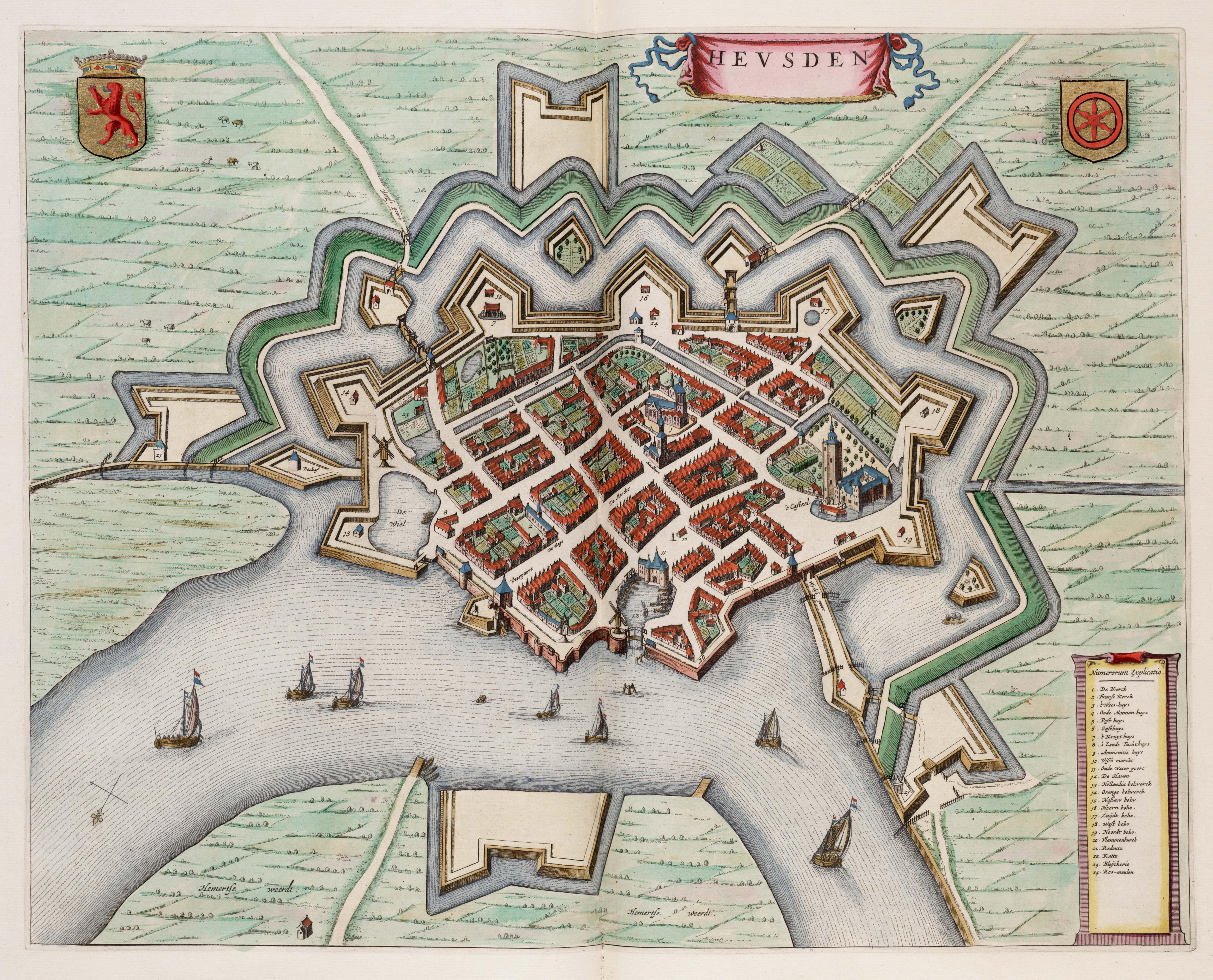 The town of Heusden, the Netherlands